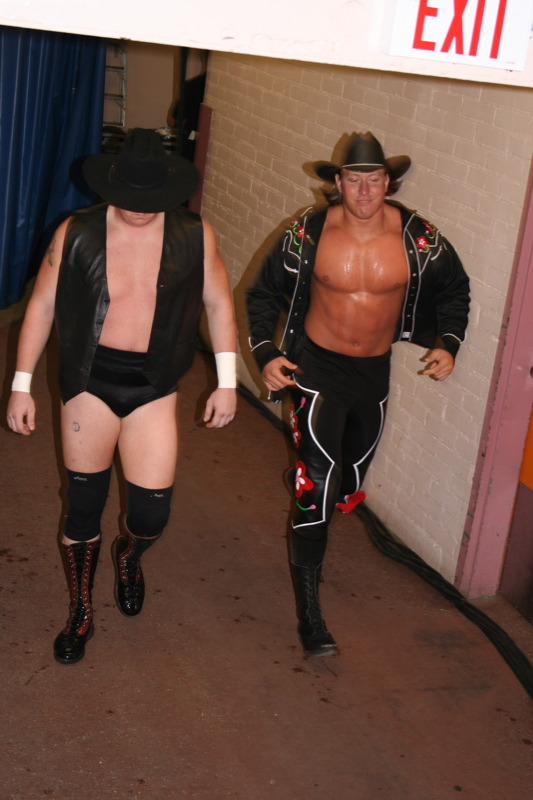 Professional wrestling tag team Lance Cade and Trevor Murdoch in 2005.